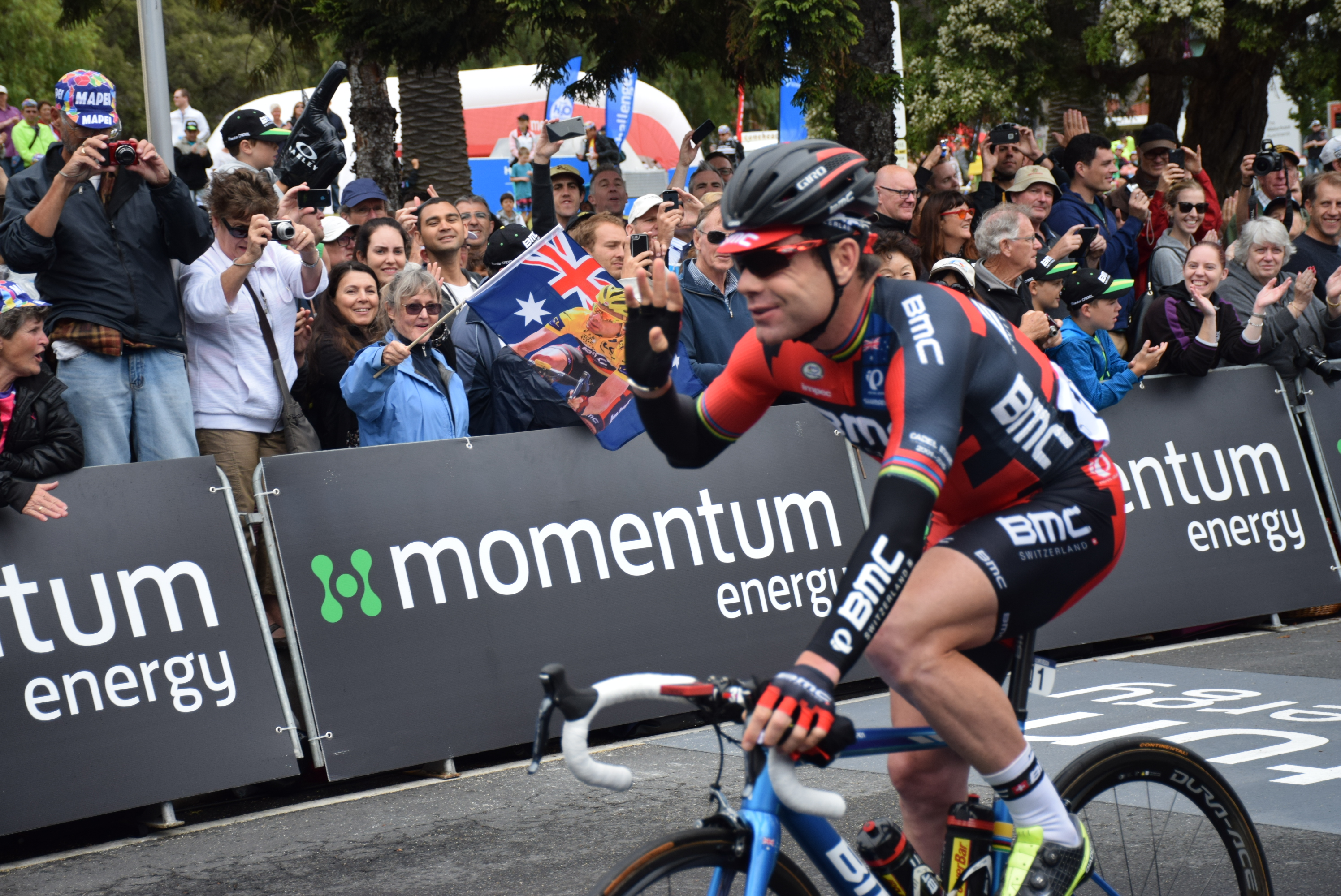 Cadel Evans last ever ride started and finished in Geelong in January 2015